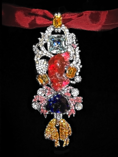 The recreated Golden Fleece of King Louis XV of France, 218 years after the original jewellery had been stolen and destroyed.